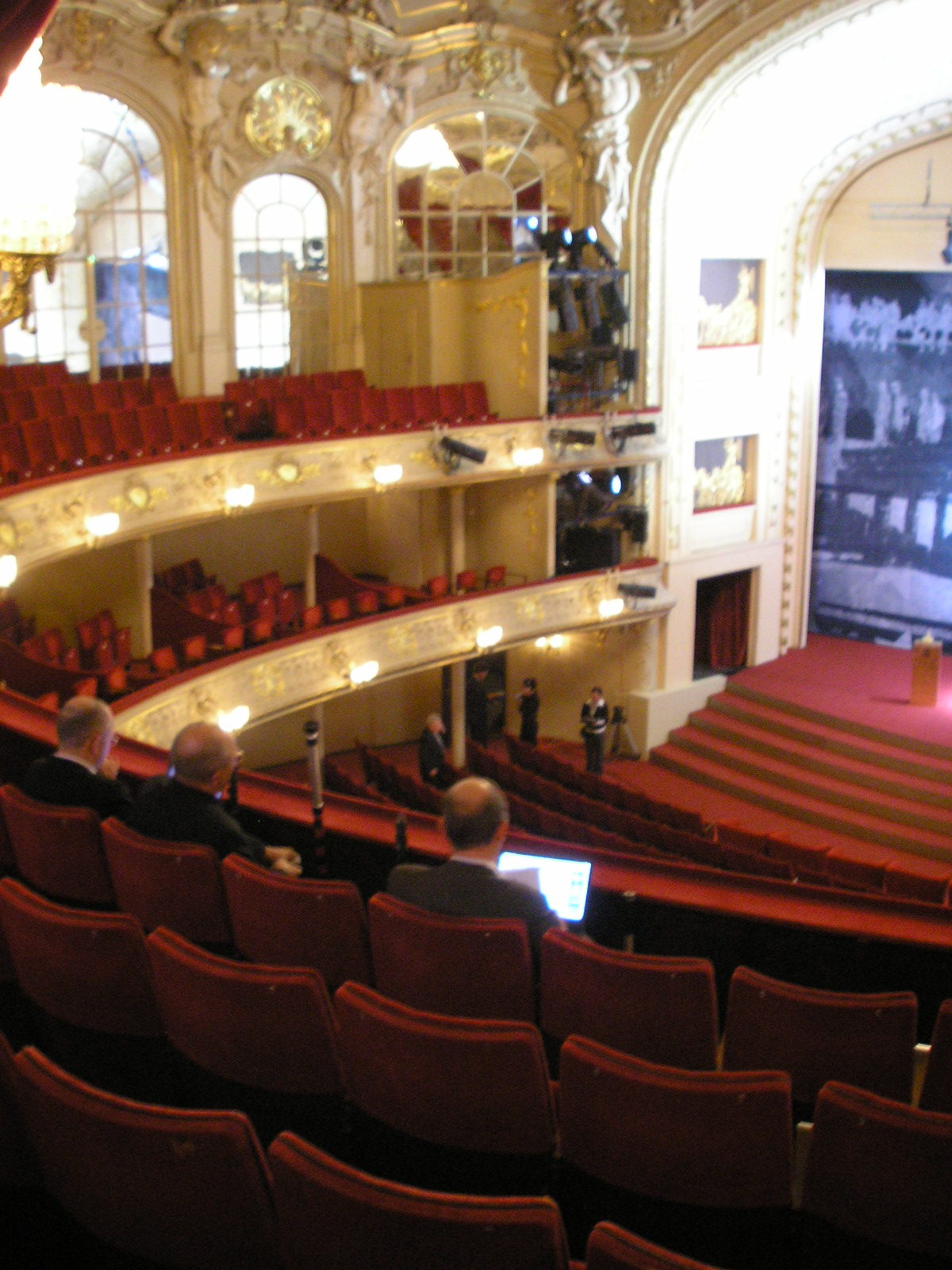 Interior of the audience hall of the Komische Oper Berlin.